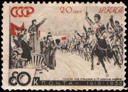 Stamp of USSRː Stalin Reviewing Cavalry. Issueː 20th Anniversary of the Workers’ & Peasants’ Red Army and the Workers’ & Peasants’ Red Fleet of the USSR